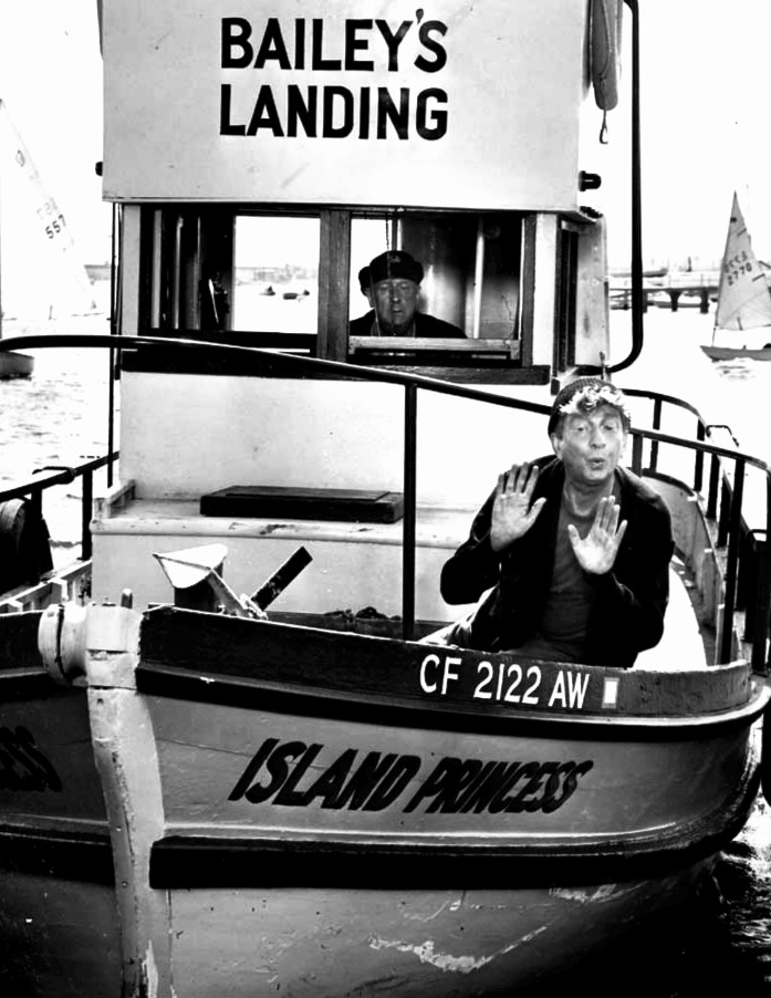 Publicity photo of Paul Ford (background) and Sterling Holloway (foreground) in The Baileys of Balboa.